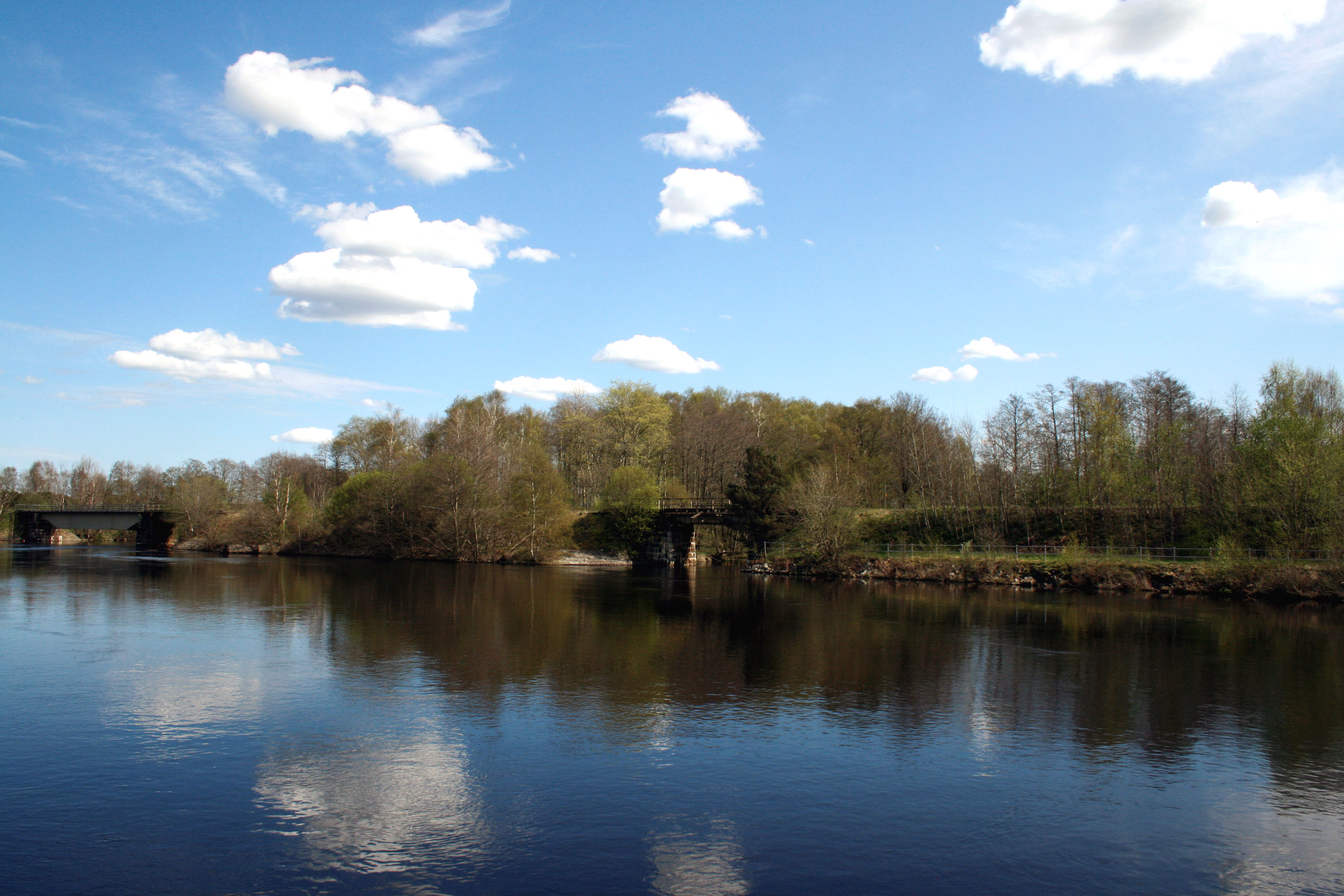 Old railway bridge, Laholm